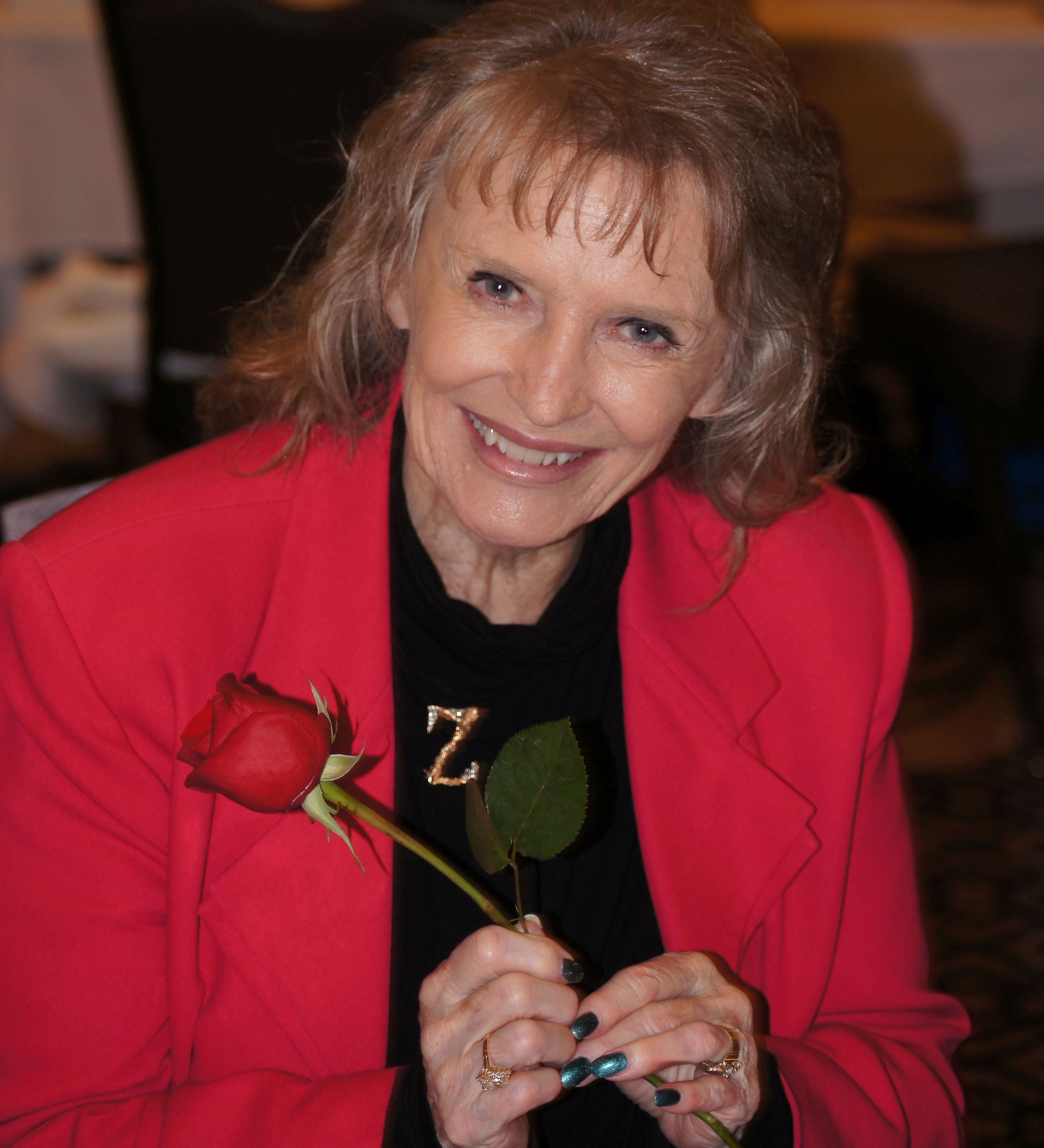 Mid Atlantic Nostalgia conv Hunt Valley M.D. Sept 2019